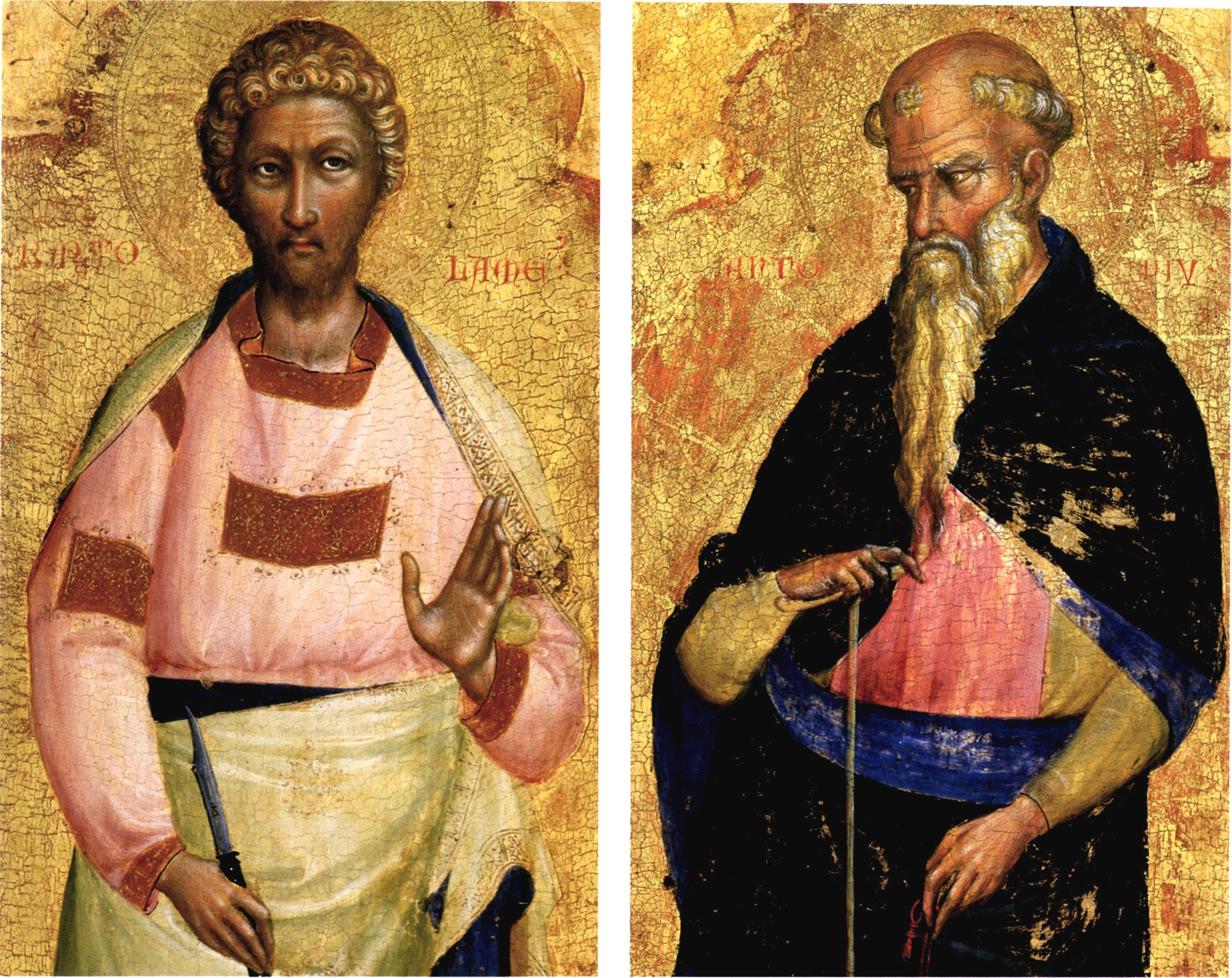 Lorenzo_Veneziano_A_Saint-Bartholomew-and-Saint-Anthony-the-Abbot-_1368._Bologna,_Pinacoteca